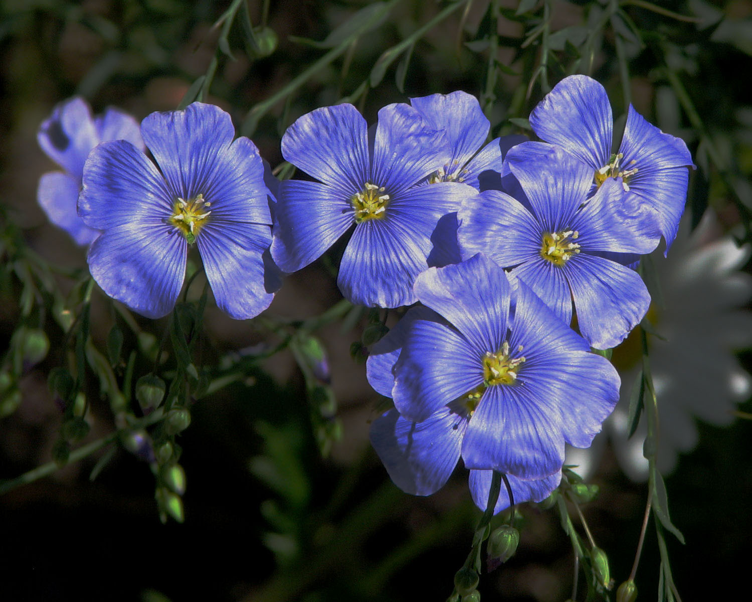 Flowers of Flax (Linum usitatissimum), Ottawa, Ontario, Canada